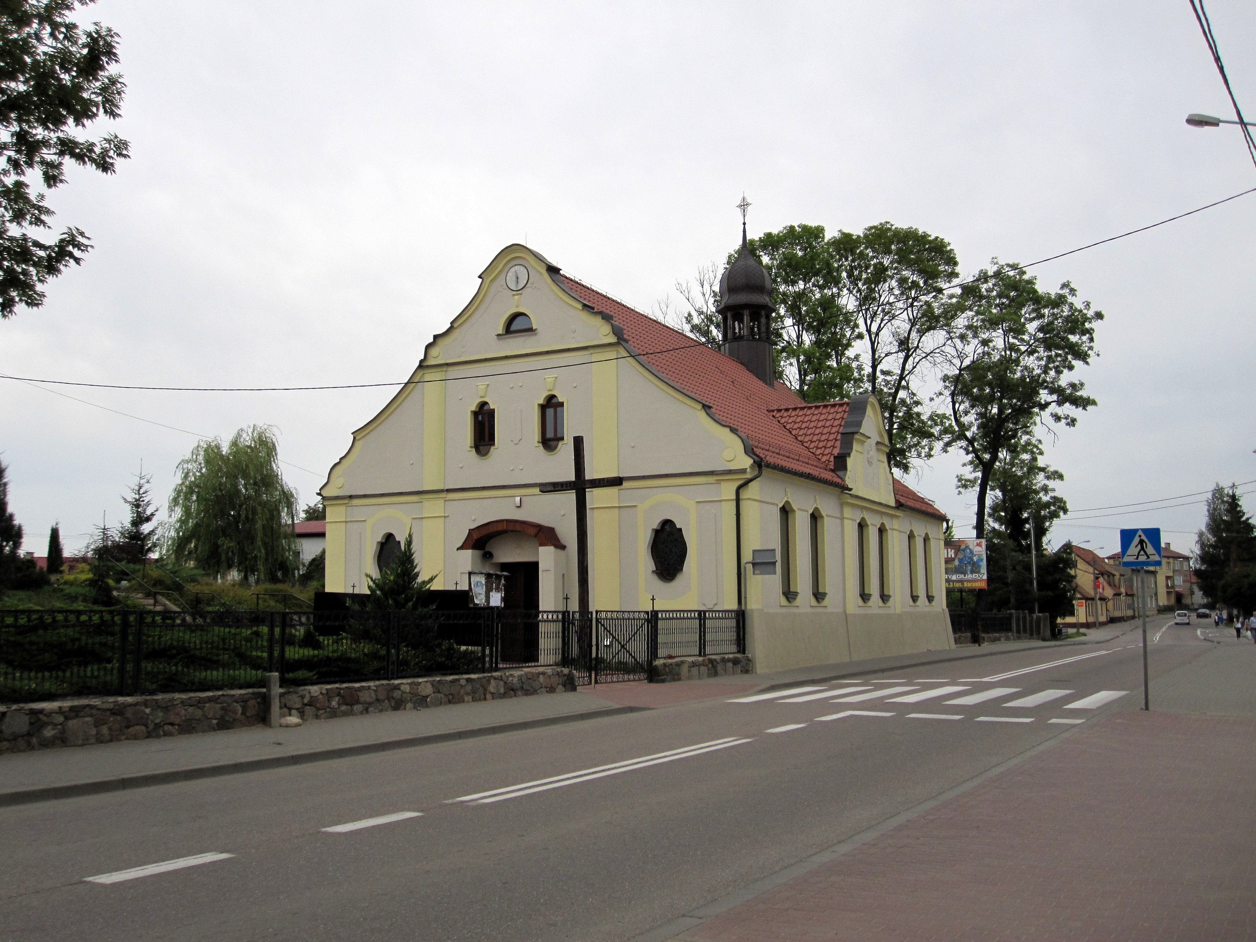 Sacred Heart church in Orzysz